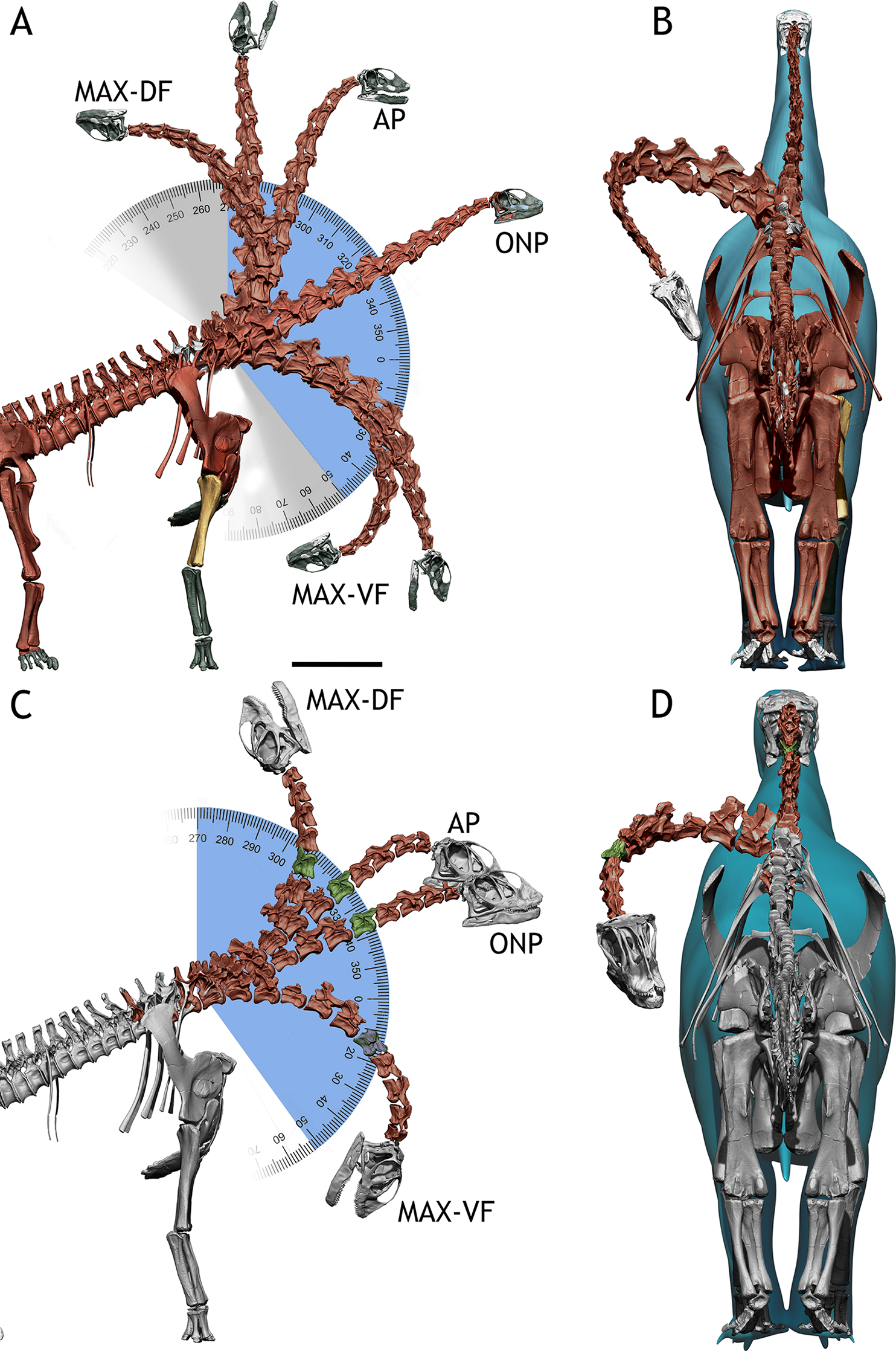 Spinophorosaurus nigerensis neck postures. A—Several postures within the dorso-ventral osteological range of motion of the subadult Spinophorosaurus. Blue indicates the arc described between maximum and minimum head heights. Grey indicates the arc described between maximum dorsiflexion and ventriflexion. B—Subadult Spinophorosaurus in posterior view, with the neck folded against the body. C—Several postures within the dorso-ventral osteological range of motion of the juvenile Spinophorosaurus. Blue indicates the arc described between maximum and minimum head heights. Grey indicates the arc described between maximum dorsiflexion and ventriflexion. D—Juvenile Spinophorosaurus in posterior view, with the neck folded against the body. Max-DF = maximum dorsiflexion. AP = alert posture. ONP = osteologically neutral pose. Max-VF = maximum ventriflexion. Red bones = main specimen. White bones = hypothetical scaled elements (see methods). Green Bones = vertebrae modeled after the closest complete element. Yellow Bones = bones modeled after different sized specimens (see methods). Blue = flesh model. Angles in degrees.